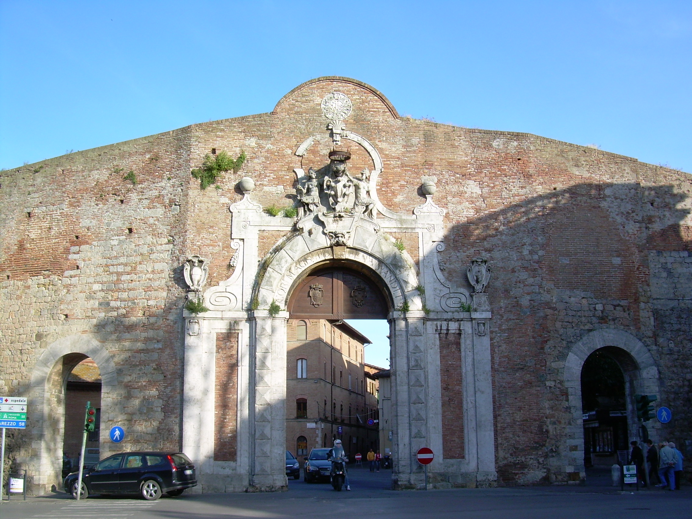 Facade of Porta Camollia, City Gate in Siena, Tuscany, Italy